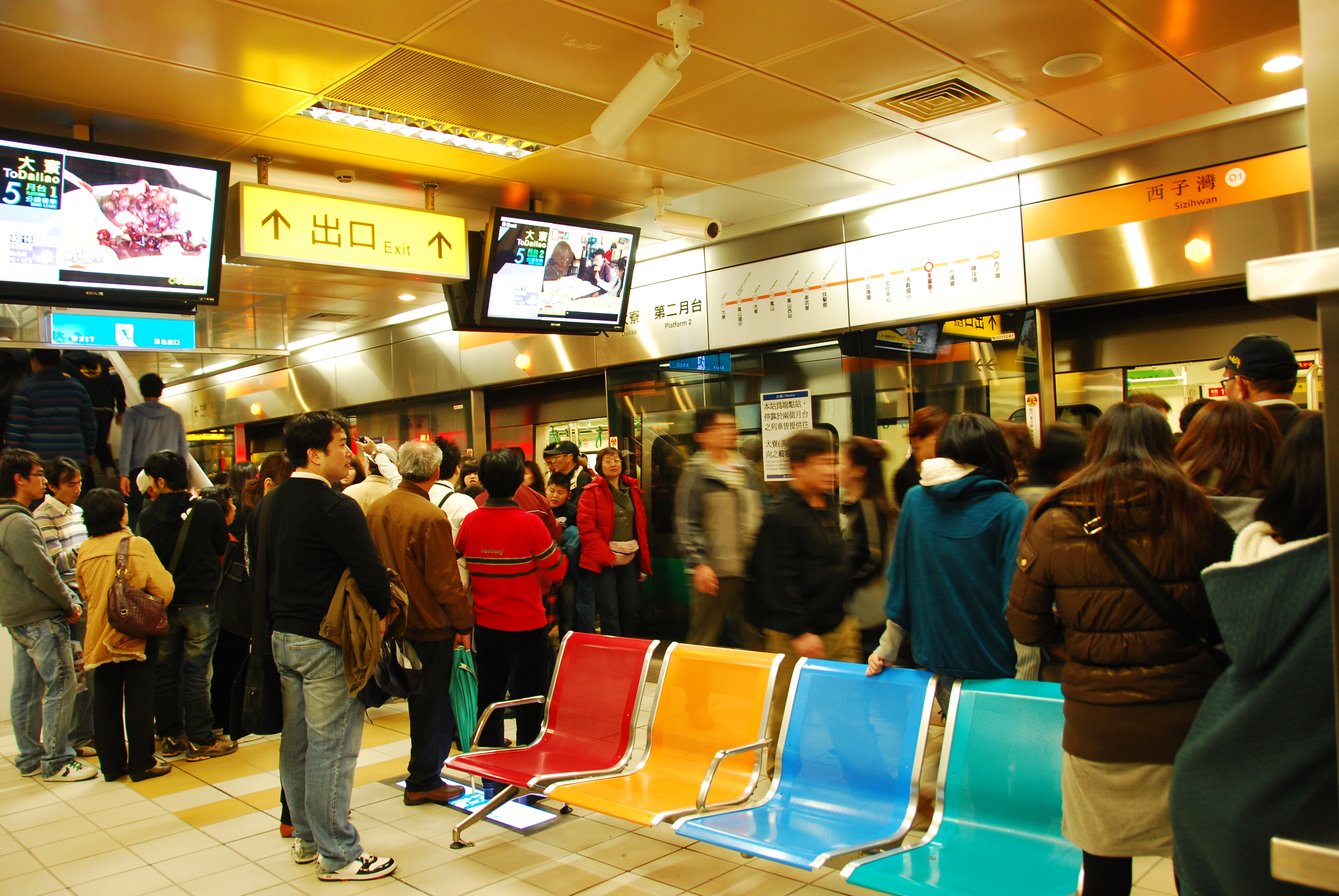 Platform 2, Sizihwan Station, Kaohsiung MRT.